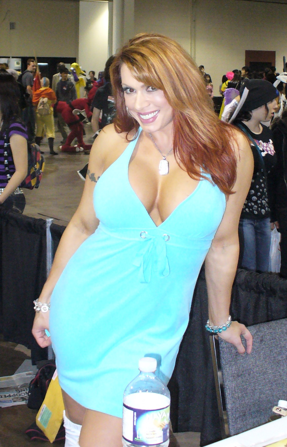 April Hunter at the 2008 Anime North convention.